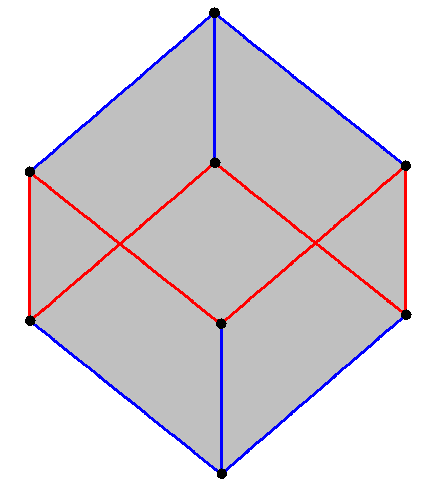 Cube with Petrie polygon drawn